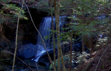 Upper Polly Branch Falls in White County, Tennessee, located in the Southeastern United States. Three small waterfalls are located along the lower half of Polly Branch as the stream spills down the edge of Scott's Gulf into the Caney Fork River below.